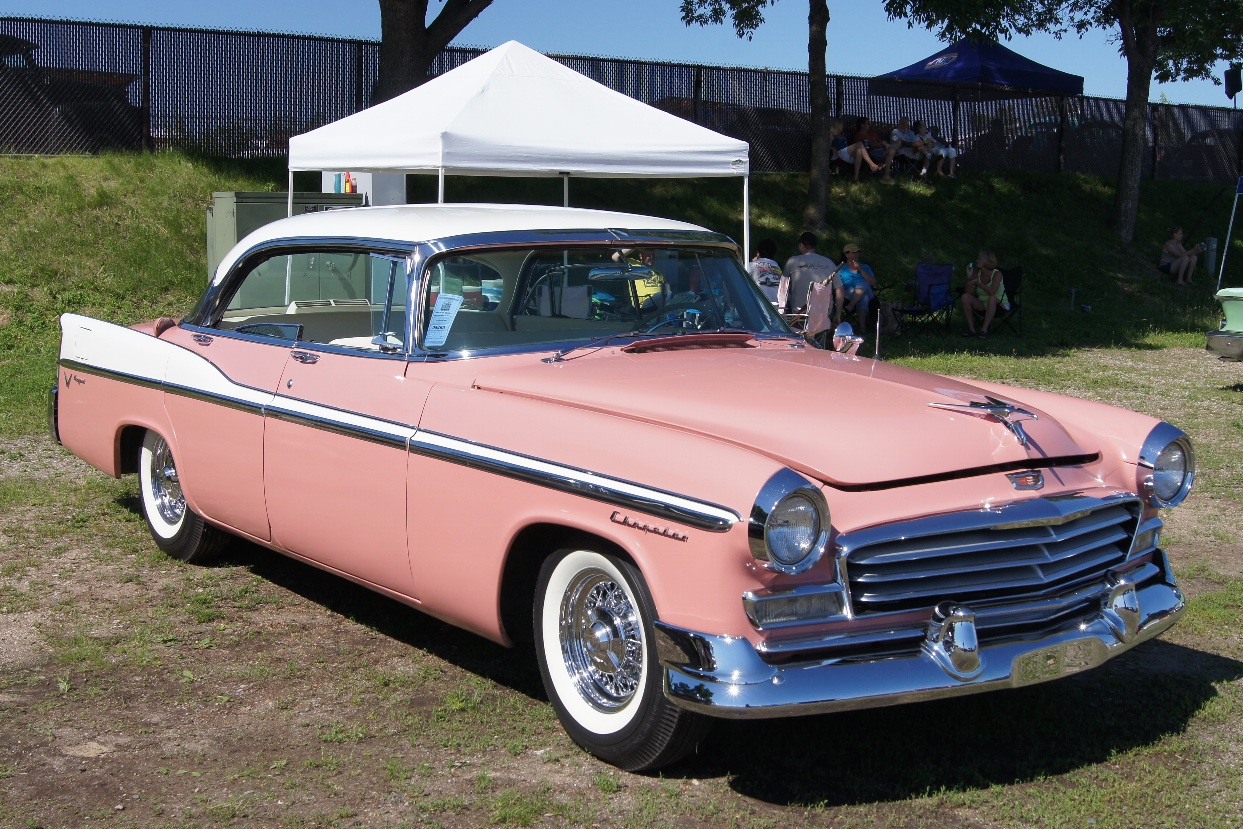 MSRA “BACK TO THE 50′s” 41st Annual June 20-22, 2014 State Fairgrounds St. Paul Minnesota More Car Pictures